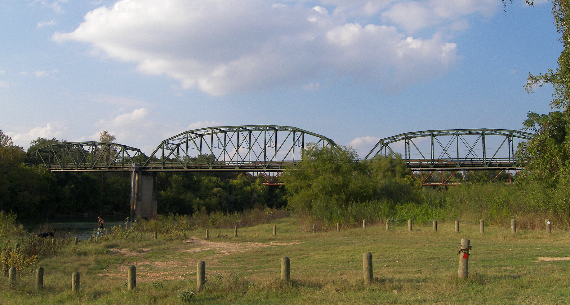 The State Highway 3 Bridge at the Colorado River in Columbus, Texas, United States is a Parker through truss bridge that was built in 1932. The bridge was listed on the National Register of Historic Places on October 10, 1996.